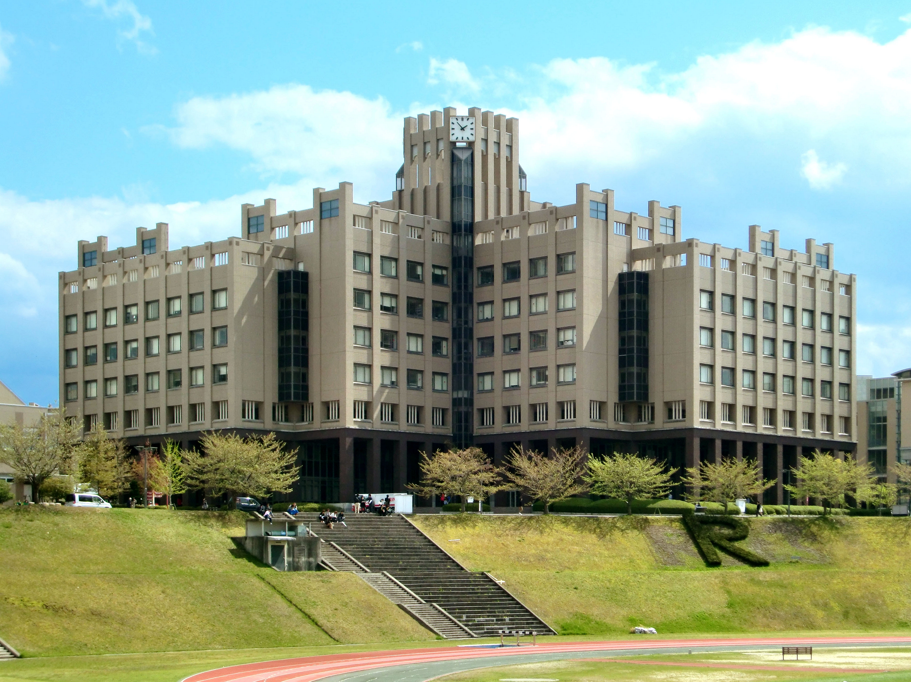 Across Wing (Ritsumeikan University Biwako Kusatsu Campus), 1-1-1 Nojihigashi Kusatsu-City Shiga JAPAN.